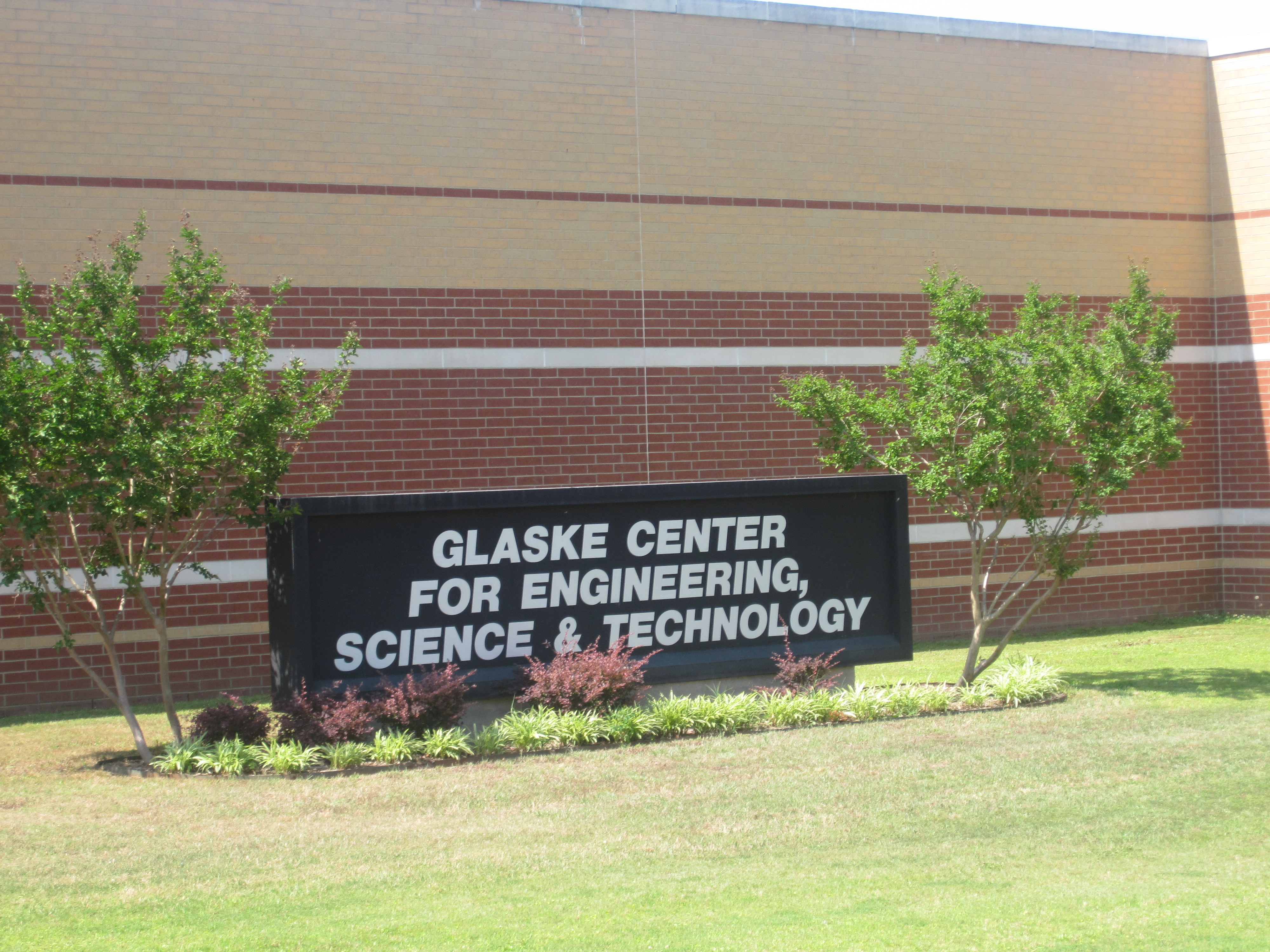 I took photo with Canon camera at Longview, TX.